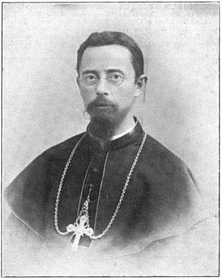 Formal portrait of Brixius Meuleman (1862-1924), 2nd Roman Catholic Archbishop of Calcutta, taken in 1907